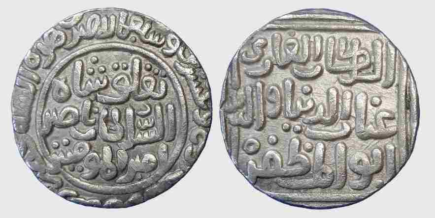 Silver Tanka of Ghiyasuddin Tughlaq Dated AH 724